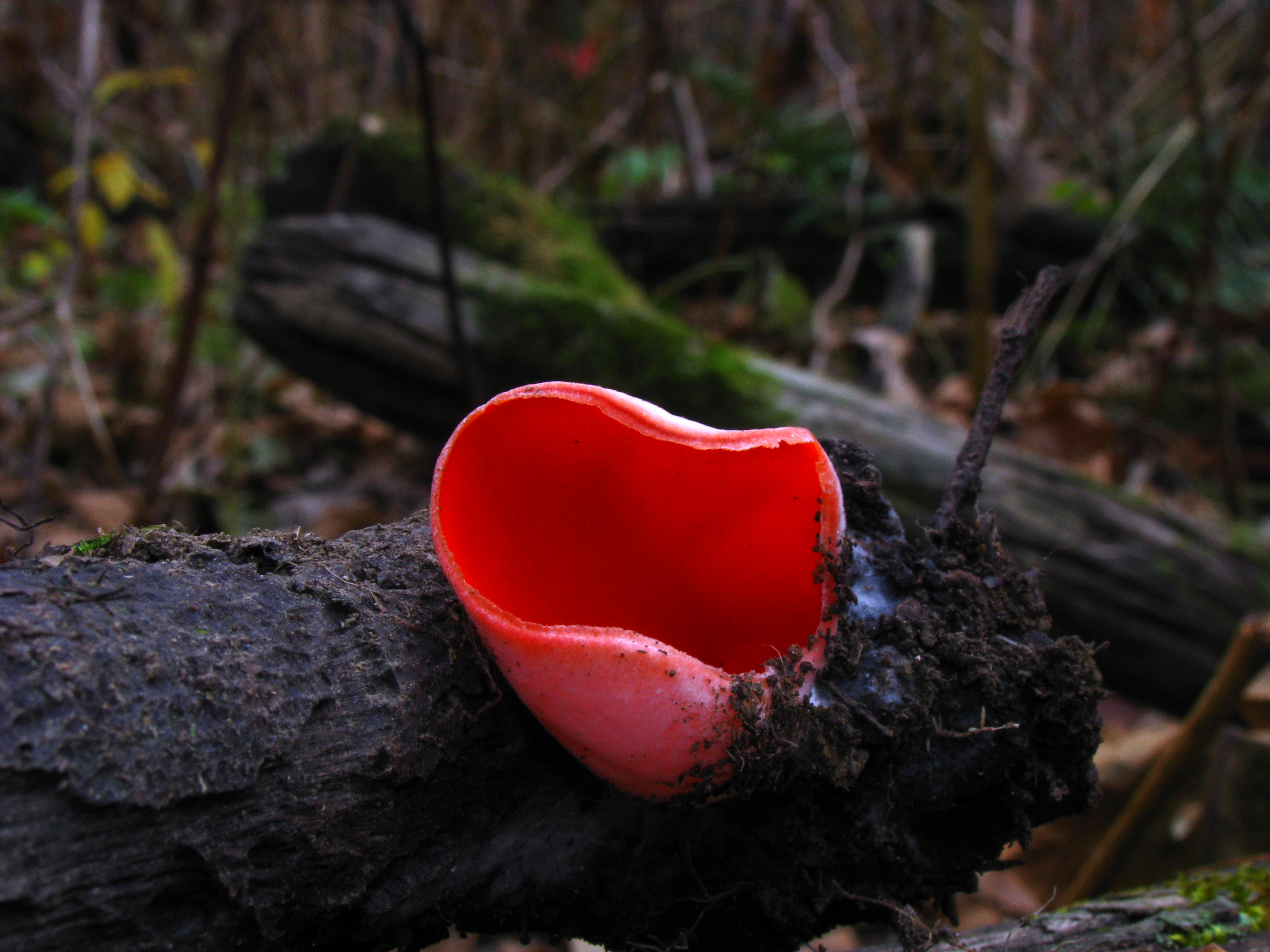 A fruit body of the ascomycete fungus Sarcoscypha dudleyi (Peck) Baral. Specimen photographed in Sunfish Creek State Forest, Clarington, Ohio, USA.